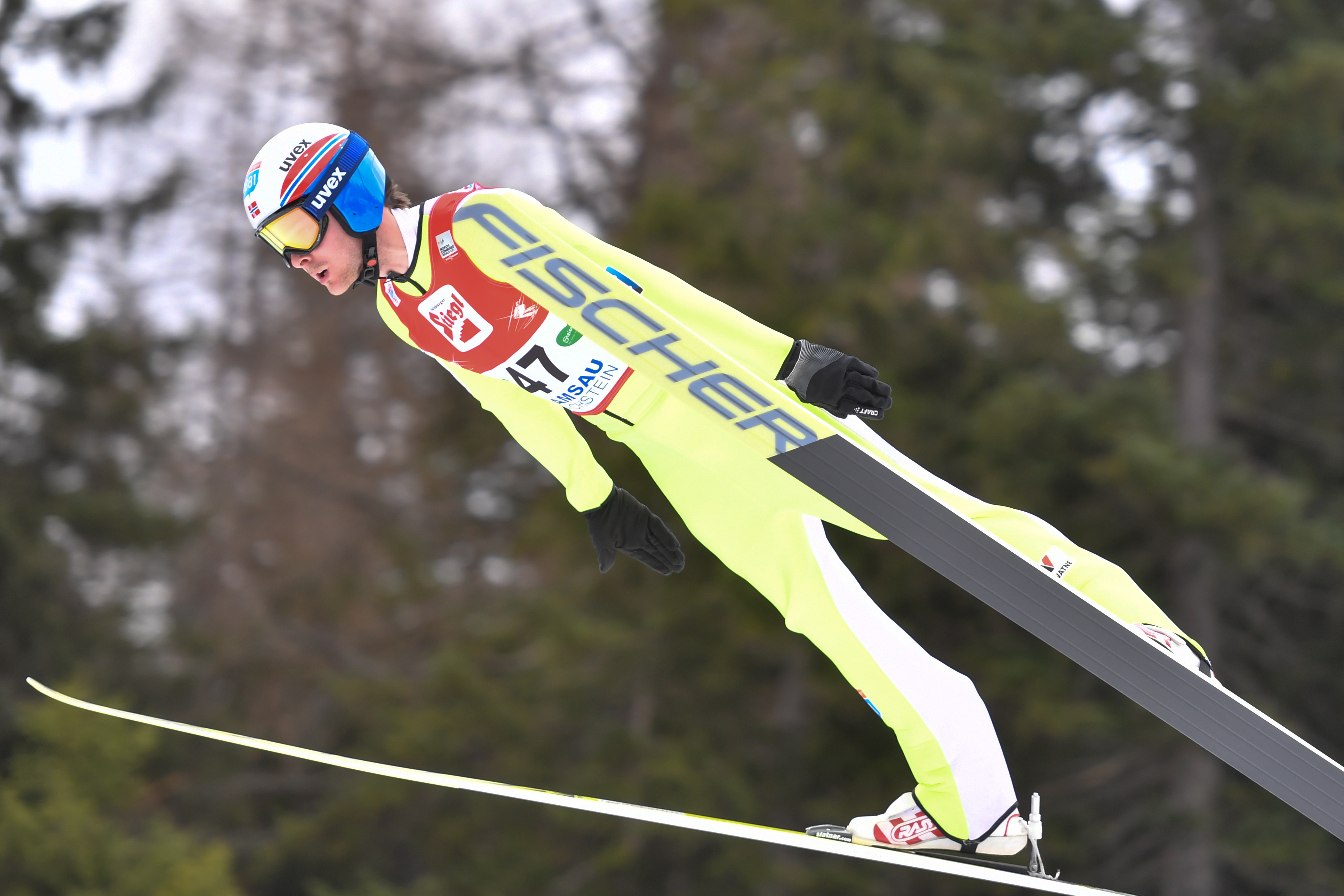 FIS World Cup Nordic Combined, Ramsau/Austria, 2016-12-16 to 2016-12-18.